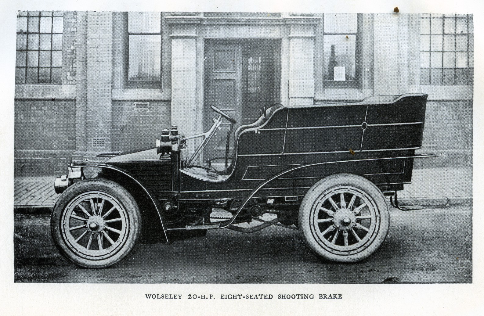 Wolseley 20HP eight seated shooting brake 1903? The Motor Book by R. J. Mecredy, 1904. These images are from the original second edition.